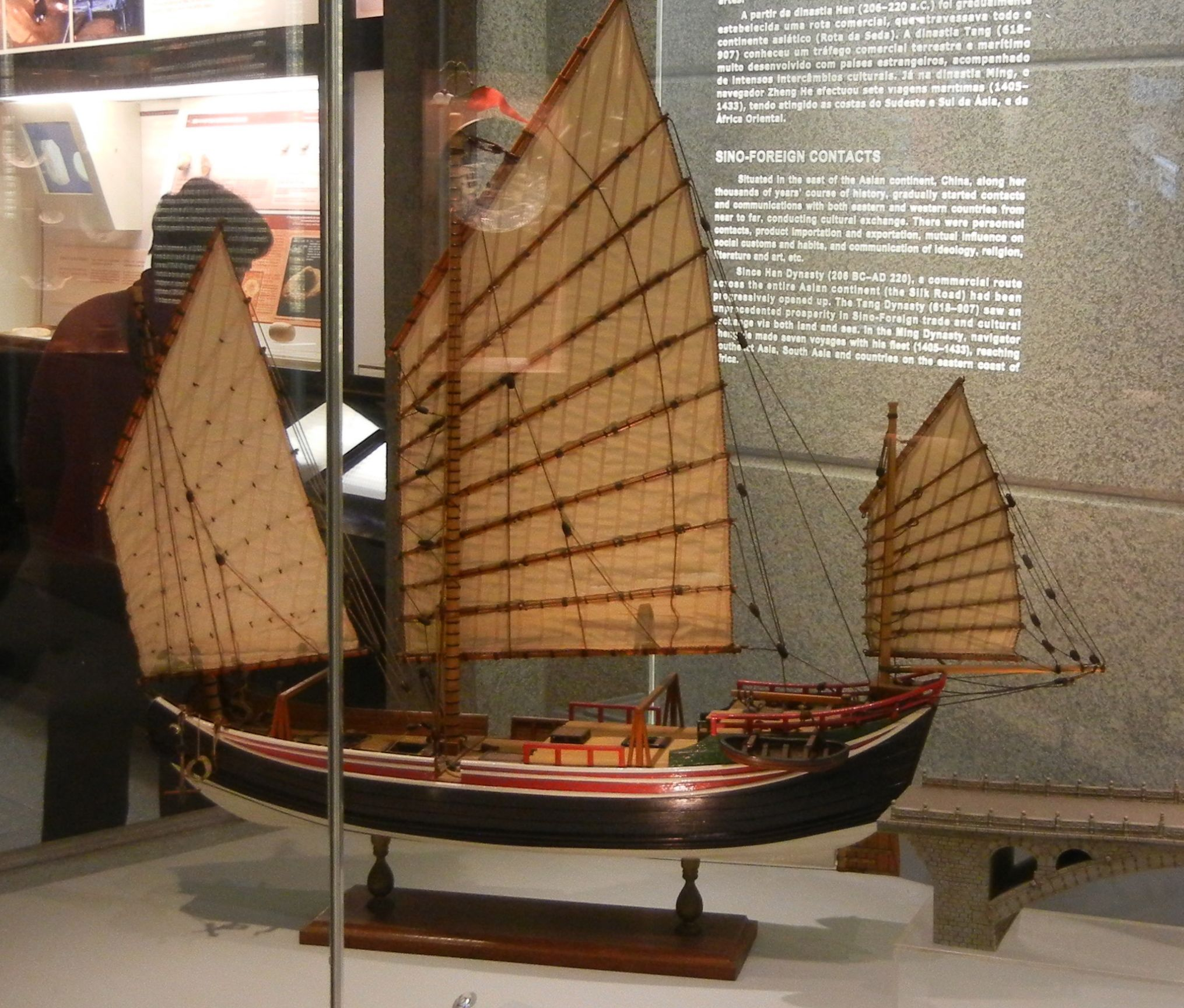 Picture of a lorcha model in the Macau Museum, Macau SARL